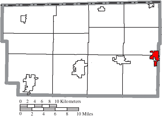 Map of the municipal and township boundaries of Fulton County, Ohio, United States, as of the 2000 census, with the location of the village of Swanton highlighted. Township borders are shown only in unincorporated areas in order to differentiate incorporated and unincorporated areas more clearly.